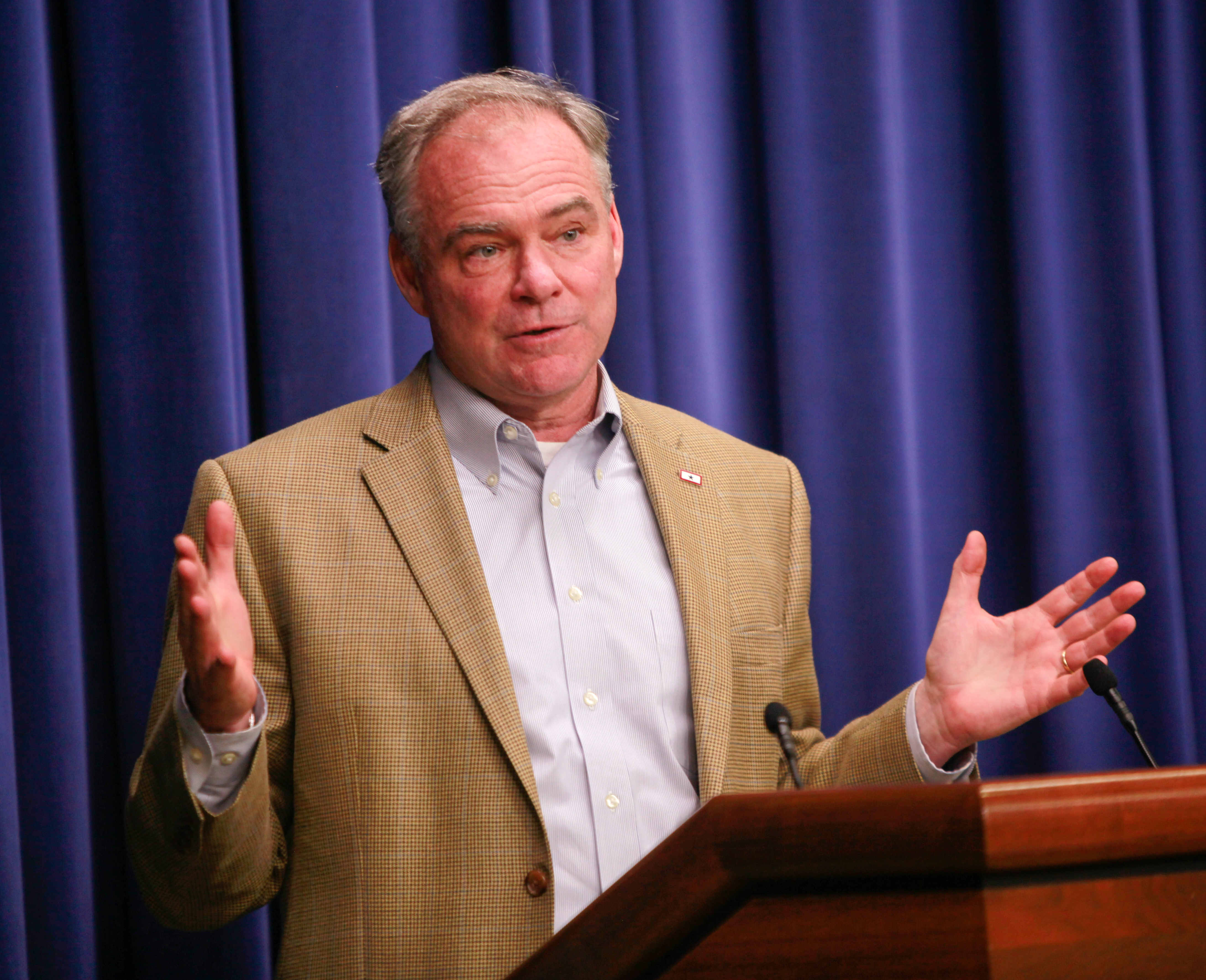 06202016 - Presidential Scholars Briefing 2016 with Secretary John King and Senator Tim Kaine